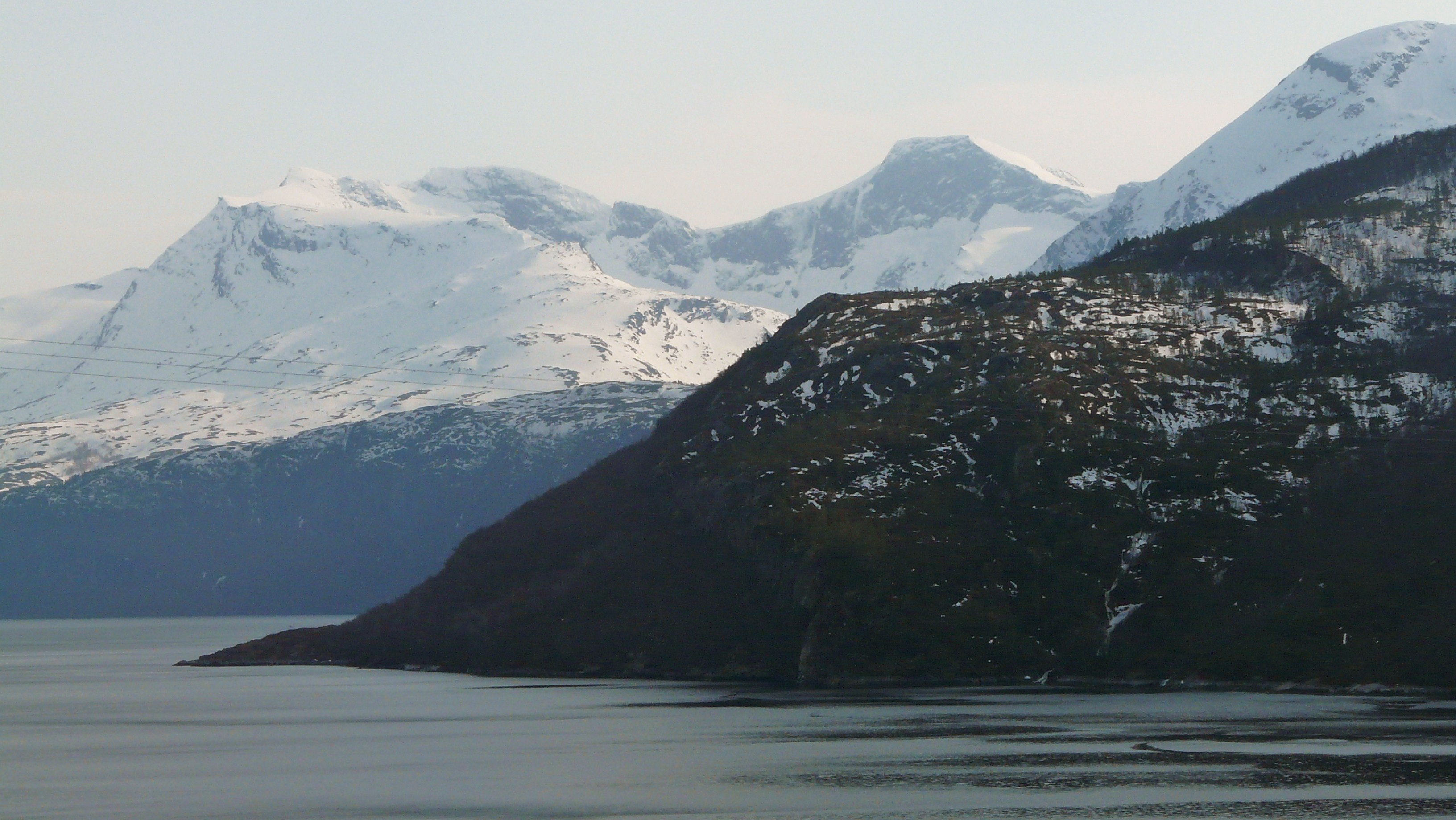 Some mountain summits at the northern side of Frostisen glacier as seen from the north from Skjombrua in 2009 May.